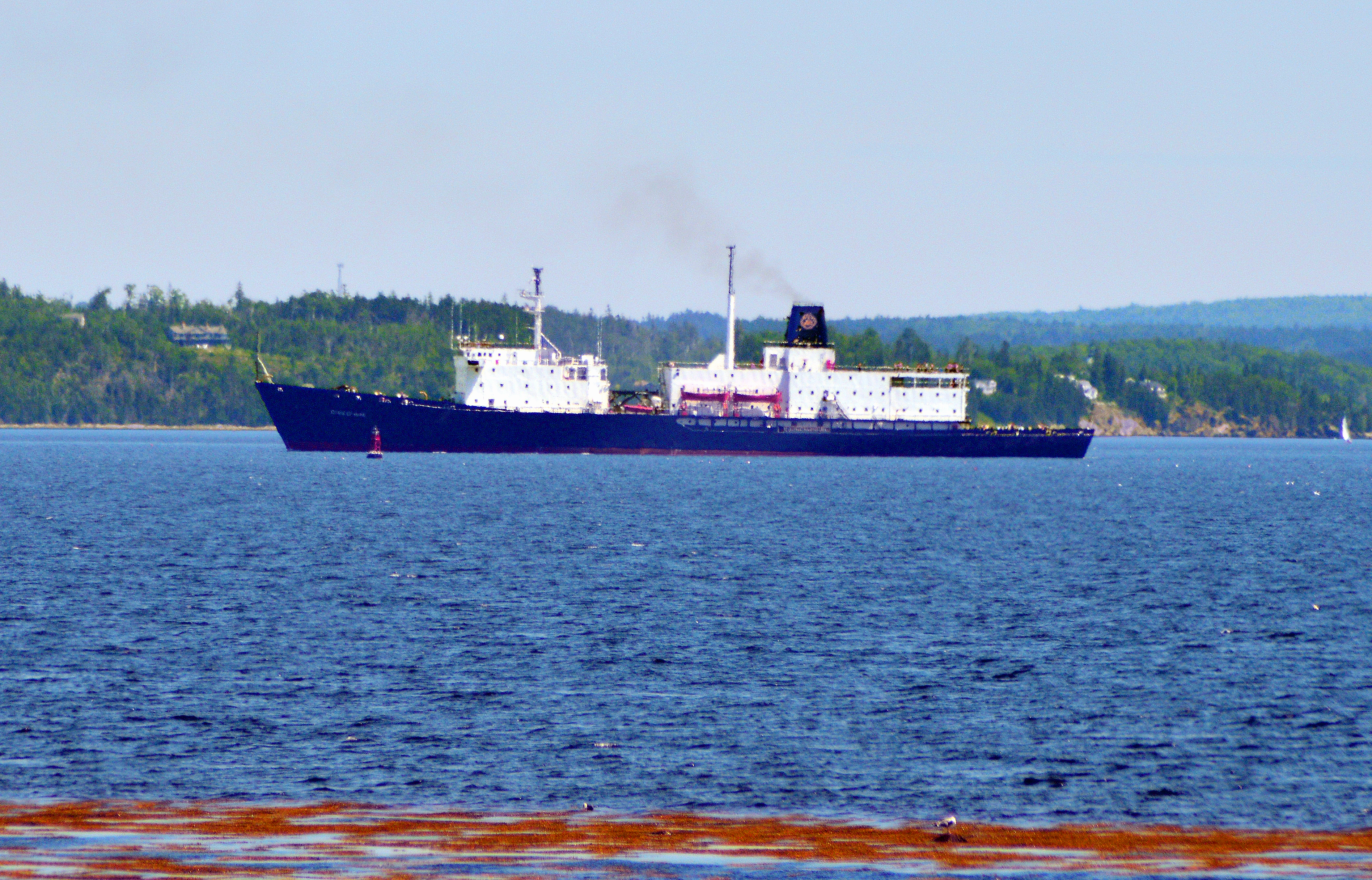 TS "State of Maine", the 565-foot, 12,500 gross ton training ship of the Maine Maritime Academy, Castine, Maine, arriving in upper Penobscot Bay at the Searsport anchorage on the afternoon of July 13, 2018, after a 13 day voyage from Alicante, Spain to complete its nine-and-a-half week 2018 summer North Atlantic training cruise which included port visits in Cadiz (Spain), Rotterdam (Netherlands), Lisbon (Portugal), Civitavecchia (Italy) and Alicante.